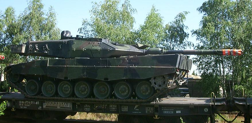 A Leopard 2A6 in dutch service